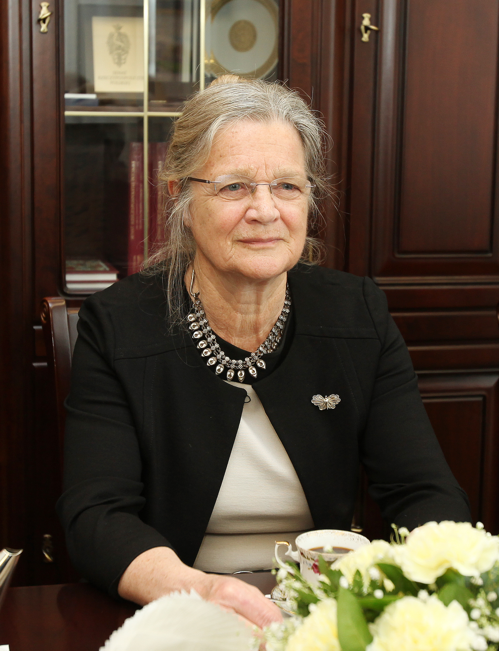 Mechtild de Jong, the President of the European Association of former Parliamentarians of the member states of the Council of Europe, in the Polish Senate